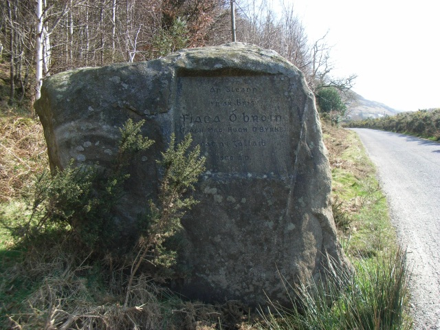 Memorial in Glenmalure, Co. Wicklow - Cuid a Dó On the other side of the rock is a memorial to Fiach MacHugh O'Byrne who was chief of the O'Byrne clan during the Elizabethan conquest of Ireland. In 1580 in the battle of Glenmalure his forces defeated an English army under Arthur Grey, 14th Baron Grey de Wilton.